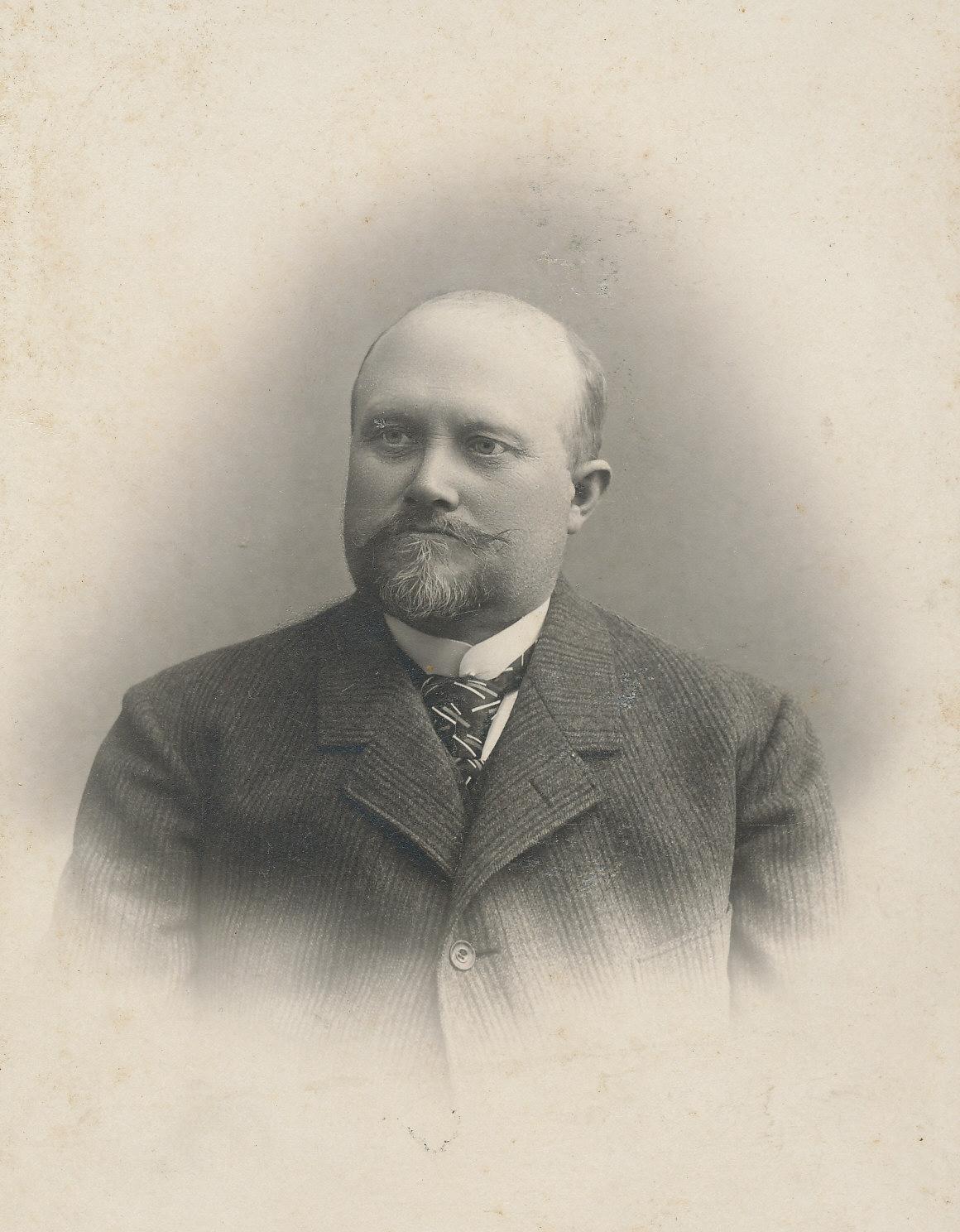 Hans Einer, an Estonian teacher, author of school textbooks, cultural and social figure.